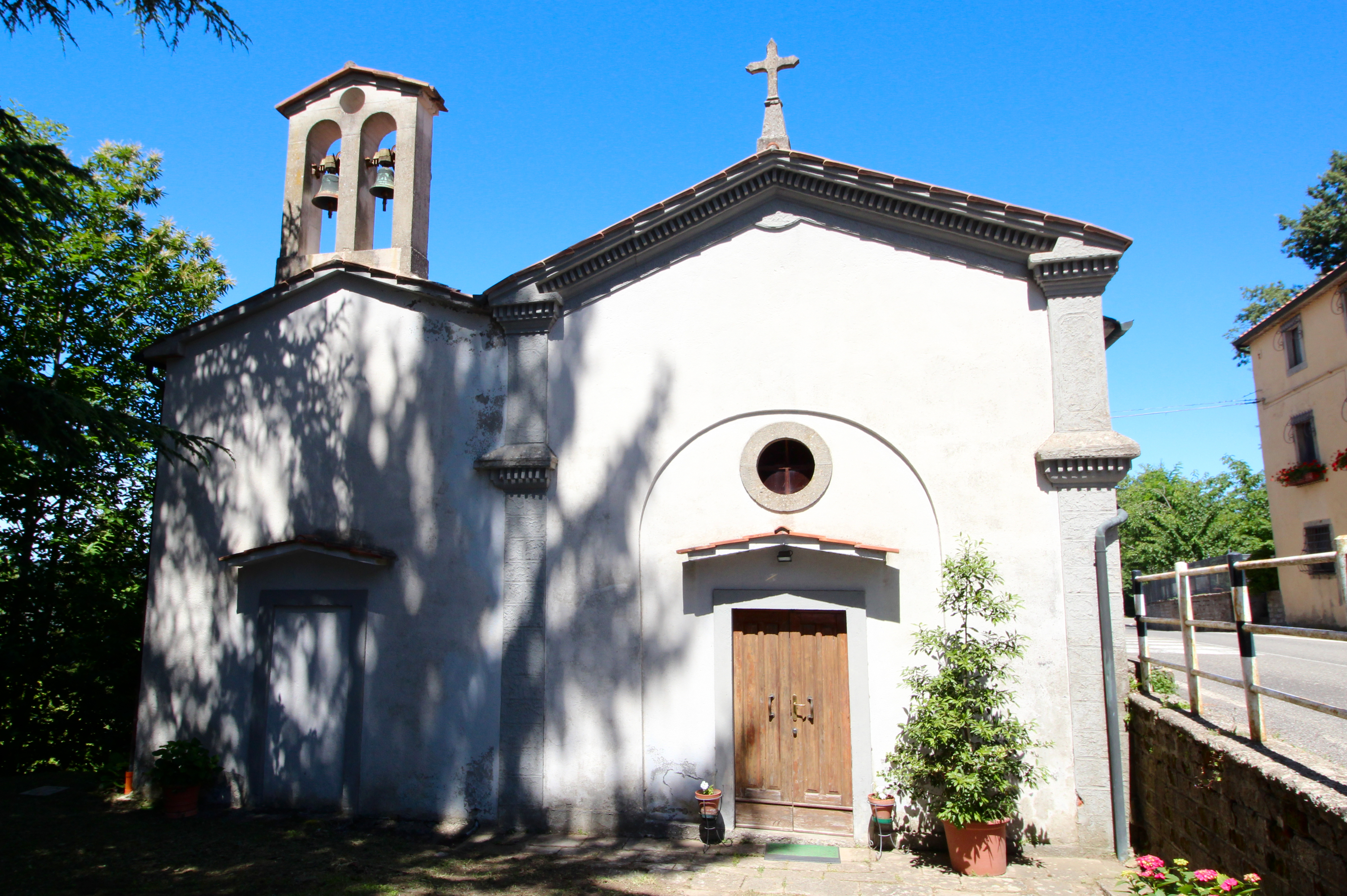 Church Madonna Addolorata, Selva, hamlet of Santa Fiora, Province of Grosseto, Tuscany, Italy